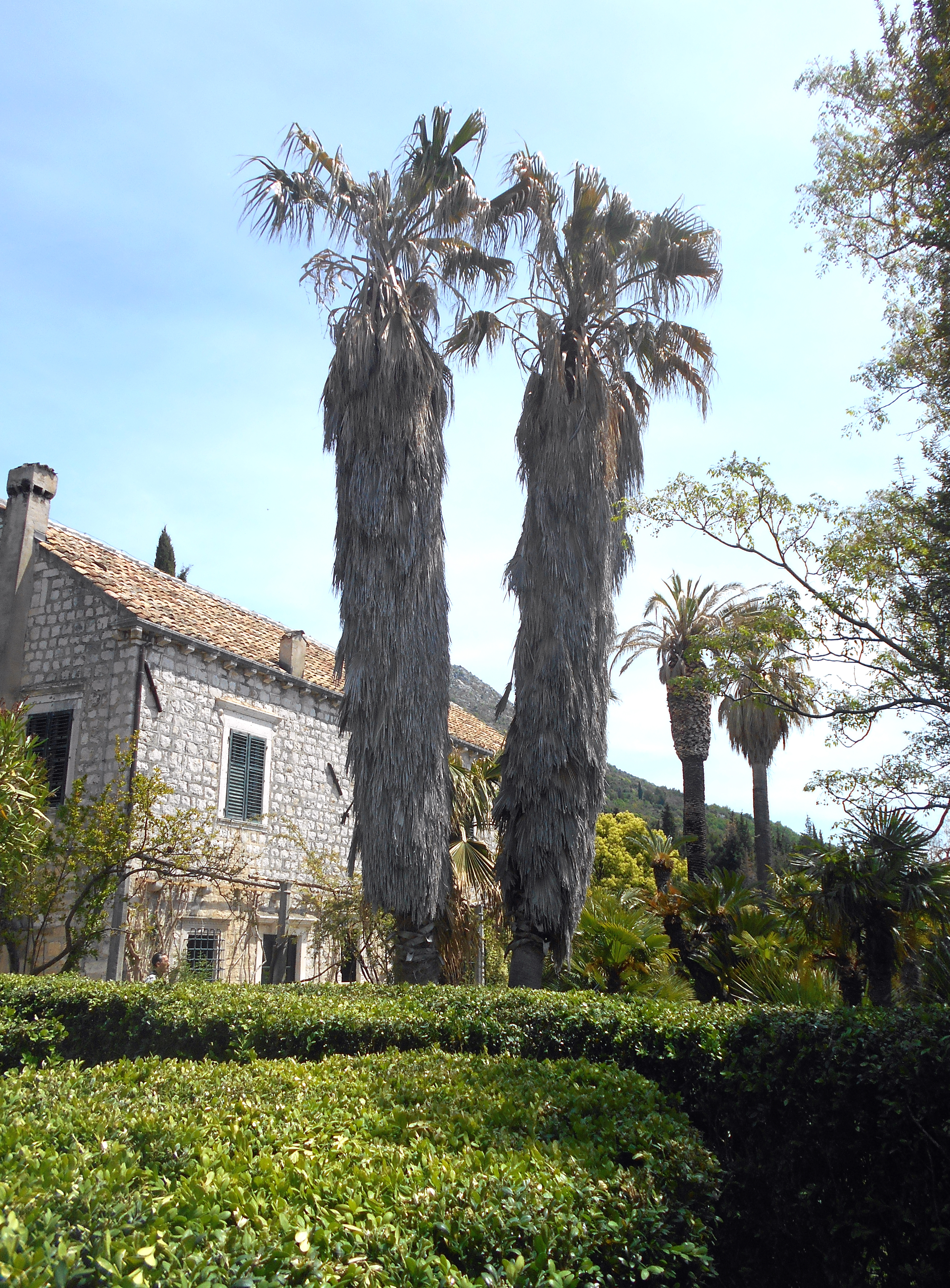 Summer house from the 17th century in Trsteno arboretum, Croatia